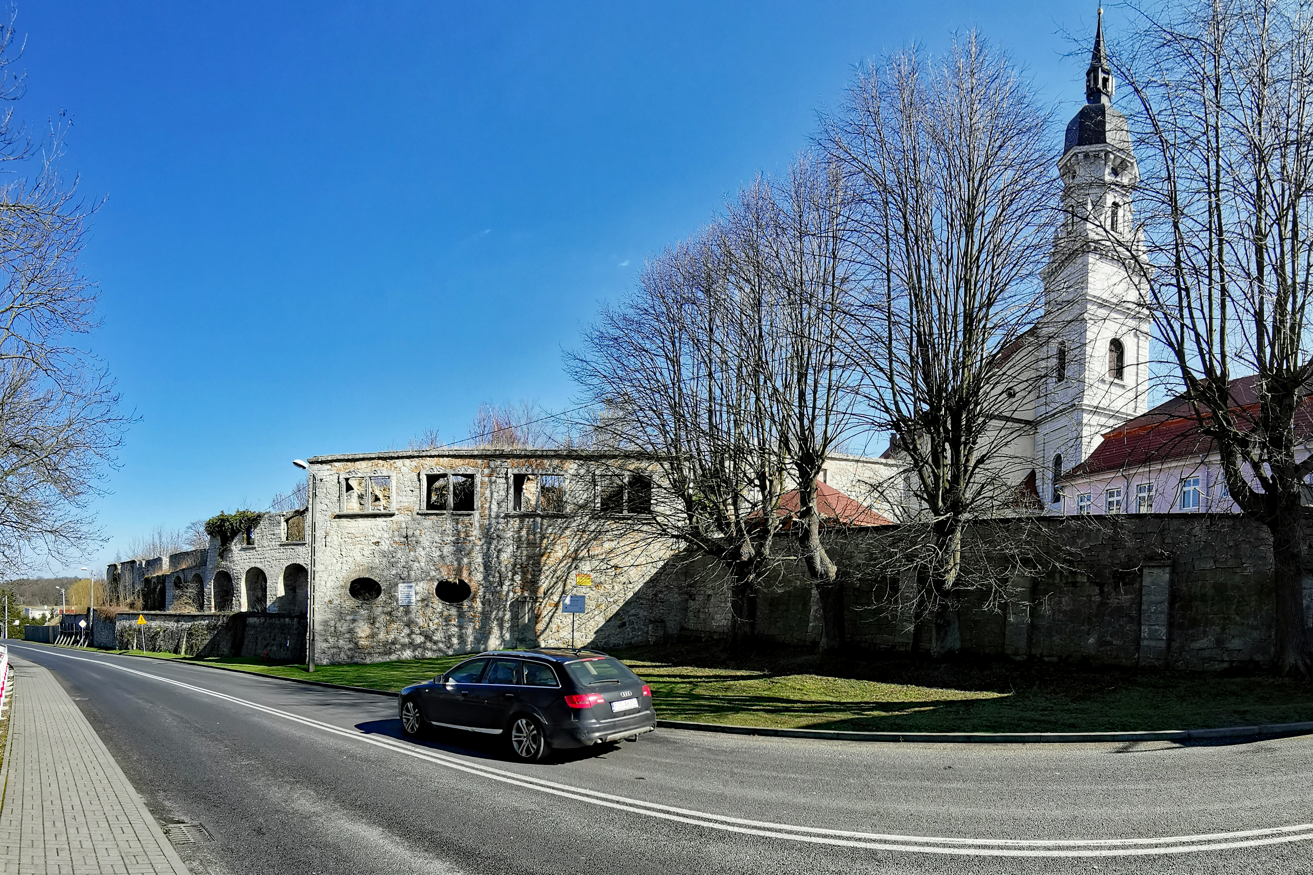 Nowogrodziec (Lower Silesian Voivodeship, Poland)